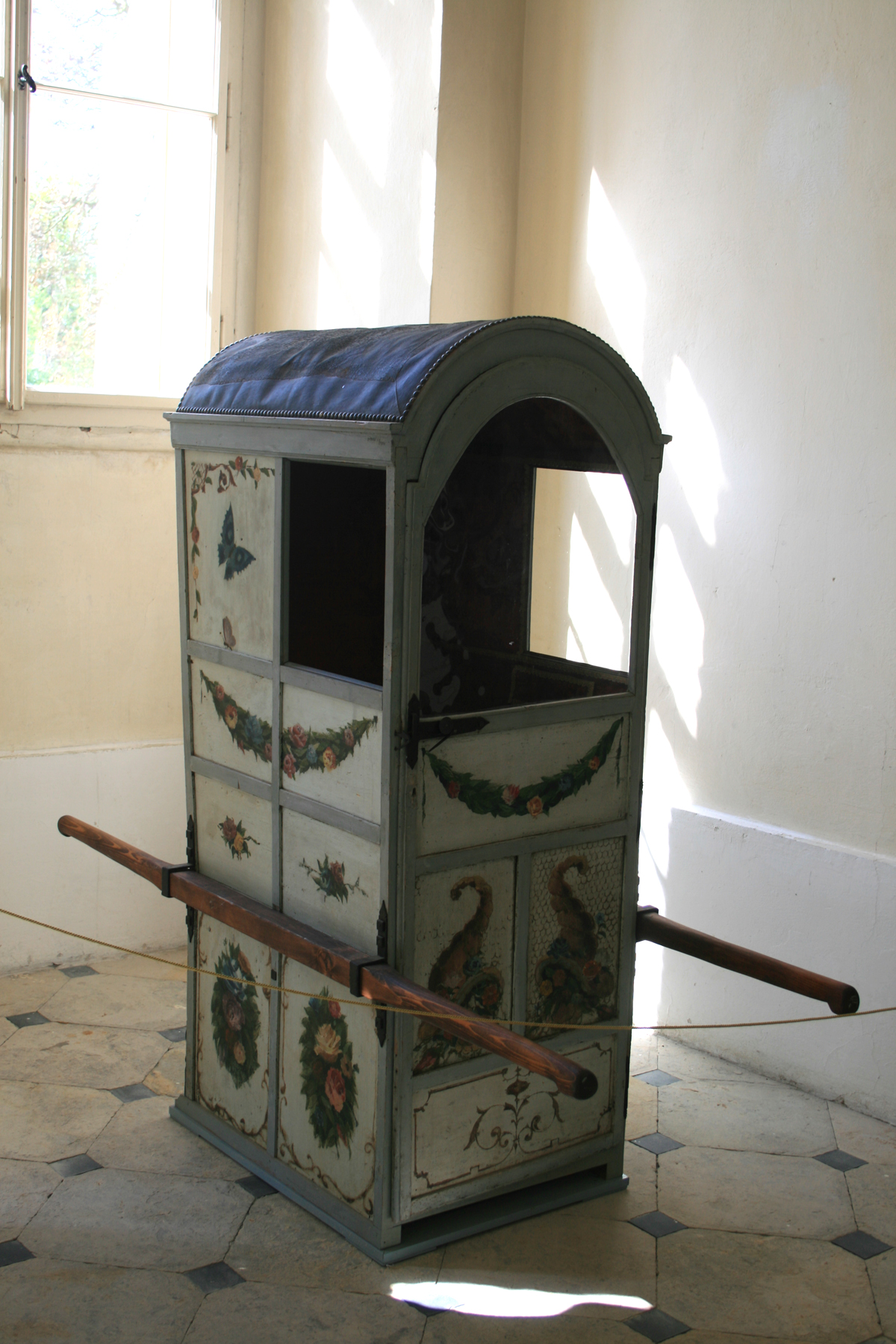 Sedan chair from Ploskovice castle in nothern Bohemia